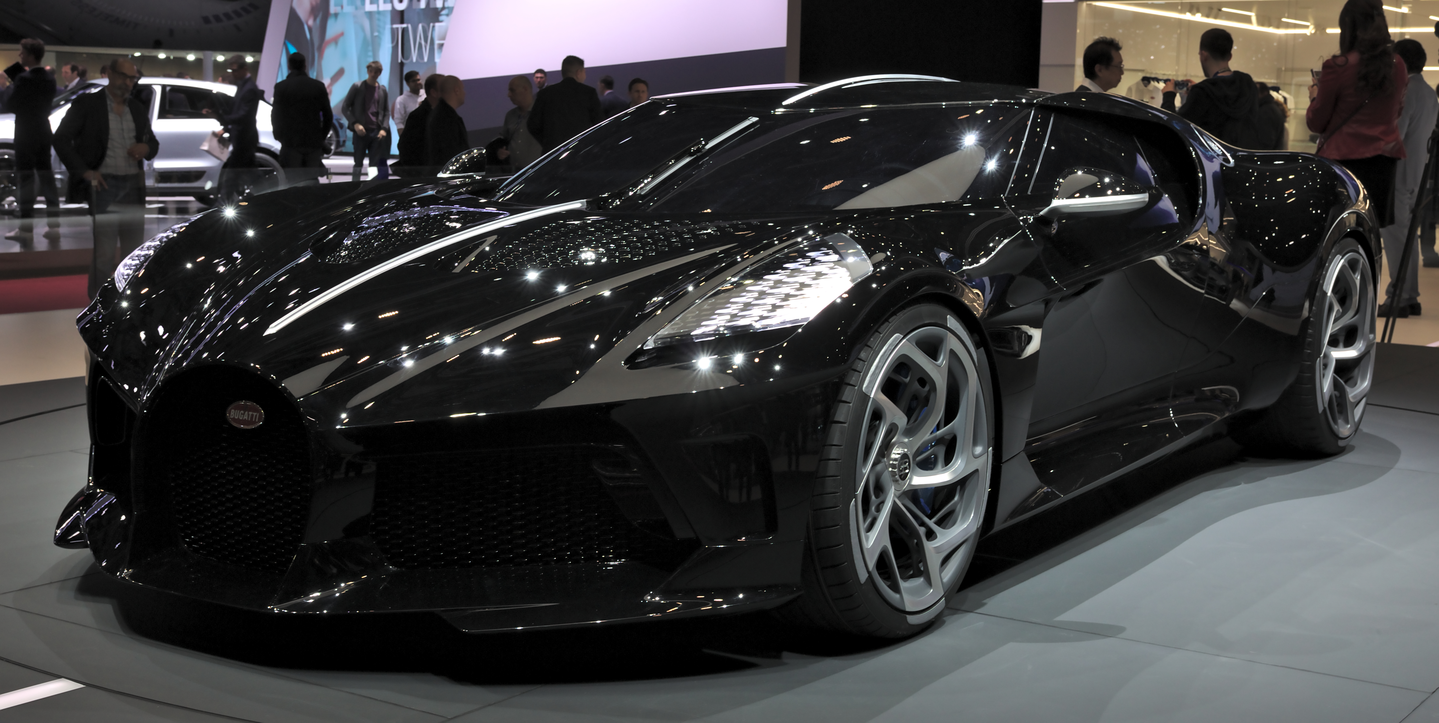 Bugatti La Voiture Noire at Geneva Motor Show 2019